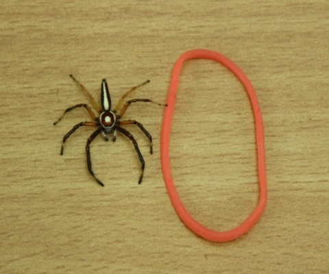 Male Telamonia dimidiata, Two-striped Jumper, Family Salticidae, Order Araneae. Pune, Maharashtra, India.